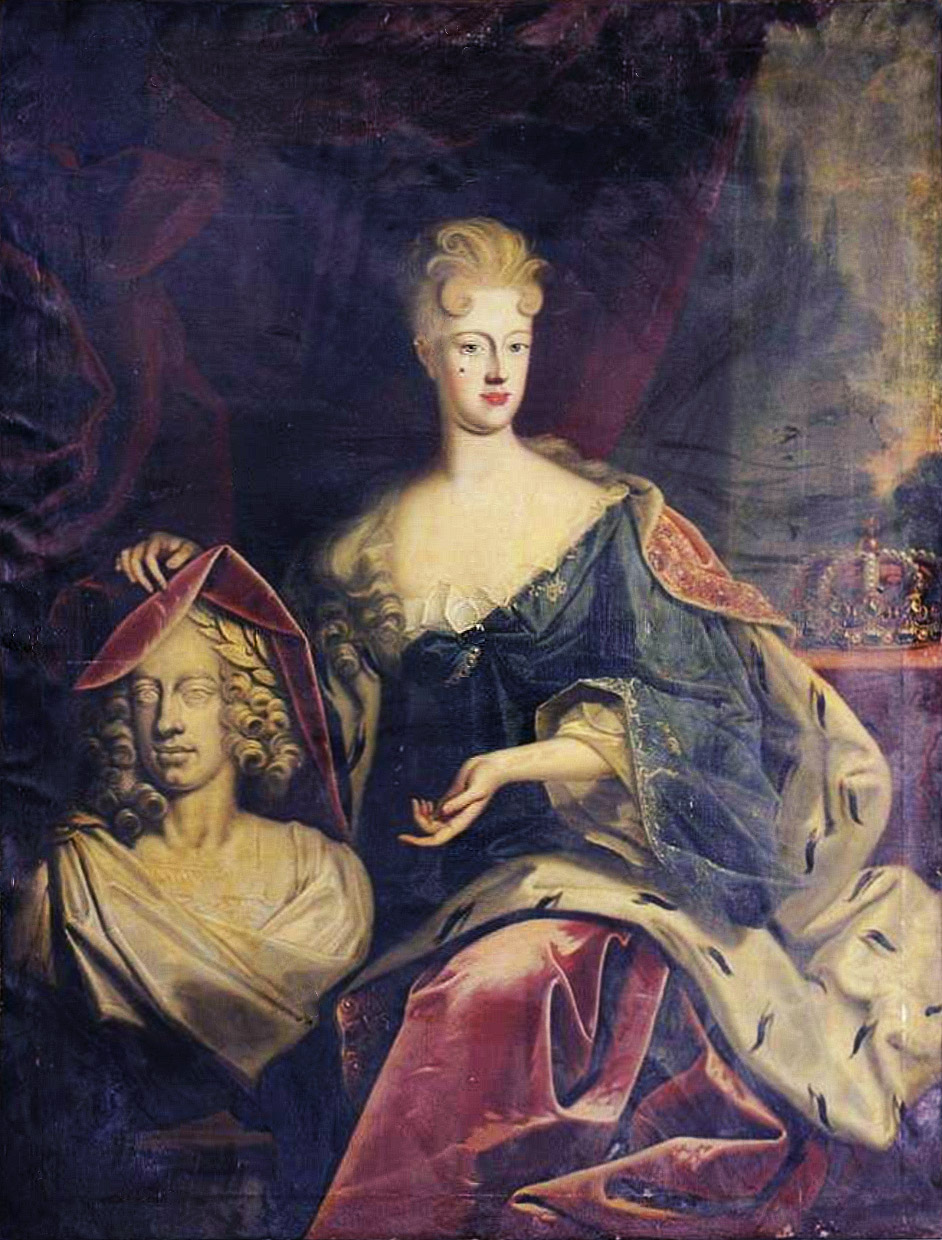 Portrait of Empress Elisabeth Christine (1691-1750), mother of Maria Theresia of Austria, misidentified with Sophia Dorothea of Hanover (1687-1757). The composition of the present painting bears some resemblance to the portrait of Sophia Dorothea at Blenheim. Description